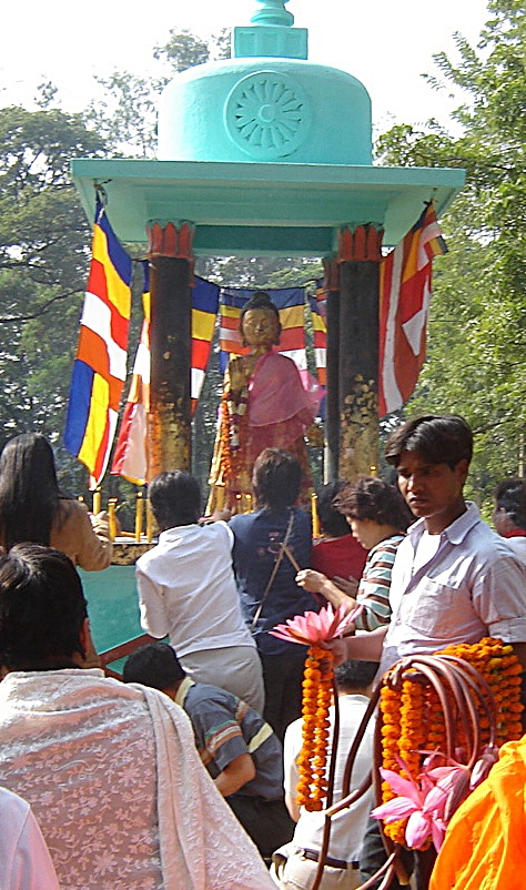 Buddha-image at Venuvana, Rajir, Bihar, India. It is the only Buddha-image at the pilgrimage site of Venuvana monastery, and a recent addition.